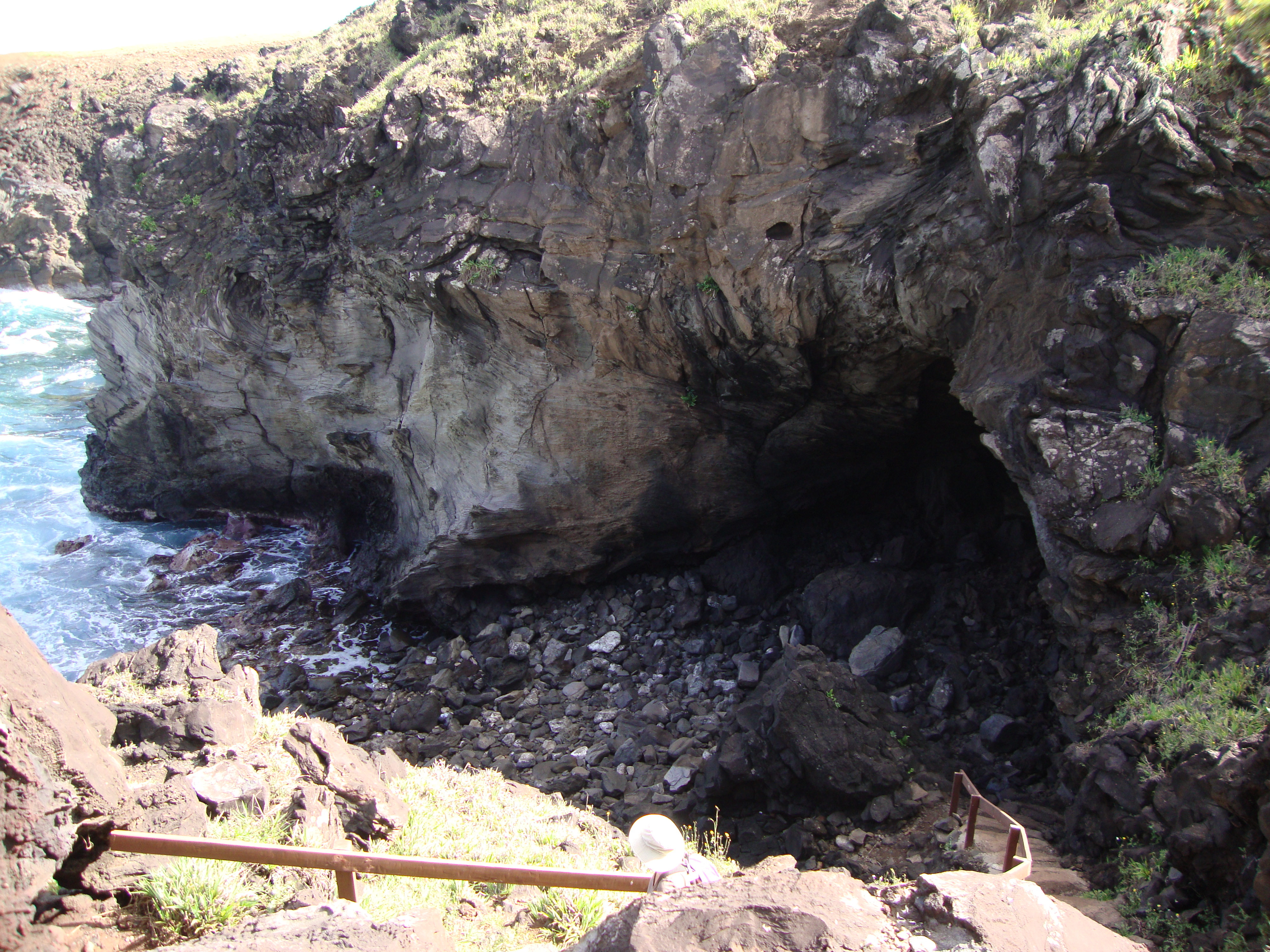 Looking down into the cave known as Ana Kai Tangata, on Easter Island. The name can be translated several ways, including "Man Eat Cave" and "Eat Man Cave." Although some translations of the name are suggestive of cannibalism, this remains unproven. Indigenous cave art can be seen on the cave's ceiling.